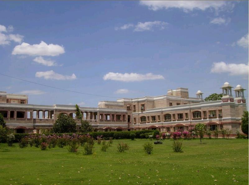 Indian Institute of Tourism and Travel Management (IITTM), Gwalior